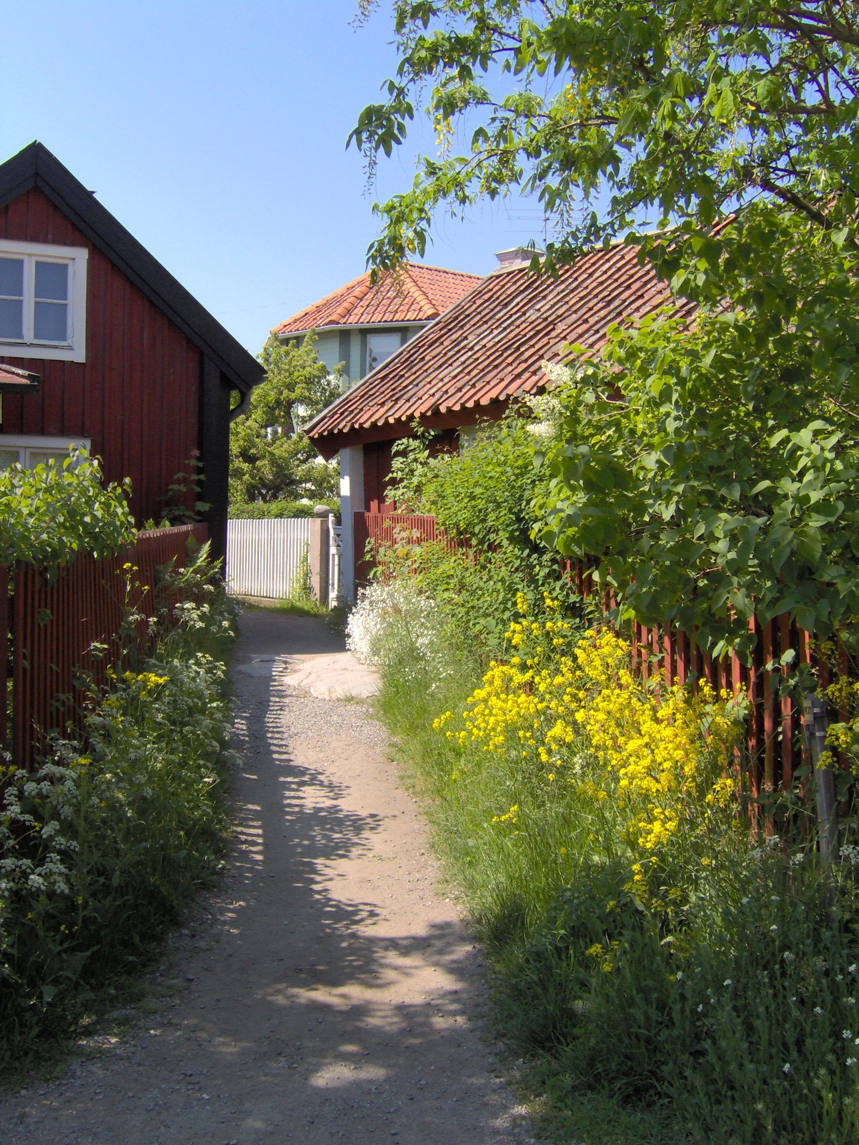 Sandhamn a bit from the harbour in Sandhamn. 2005.